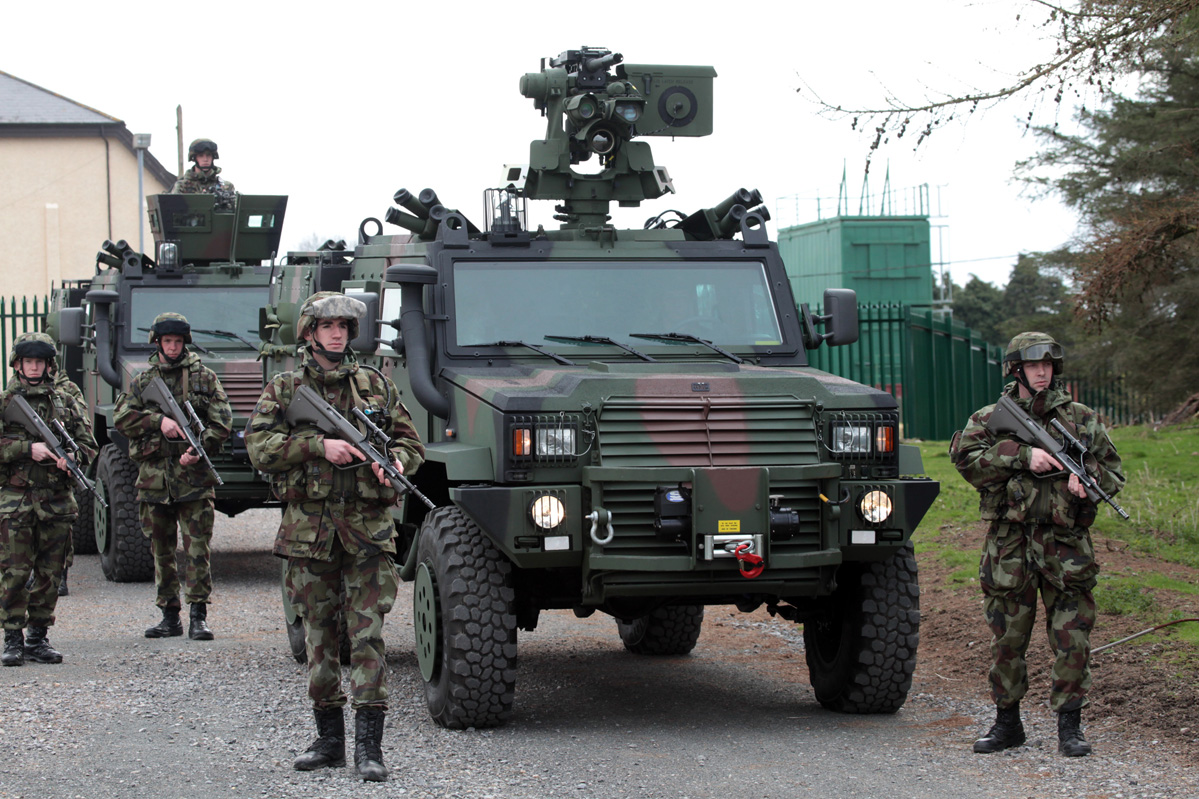 New Light Tactical Armoured Vehicle